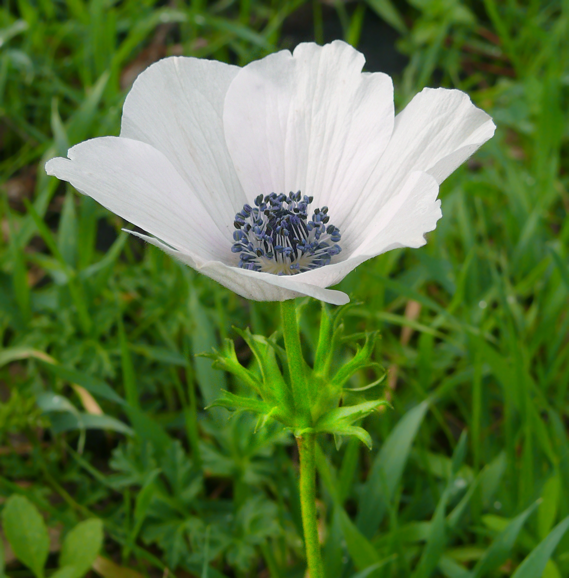 White Anemone coronaria - side view, Israel